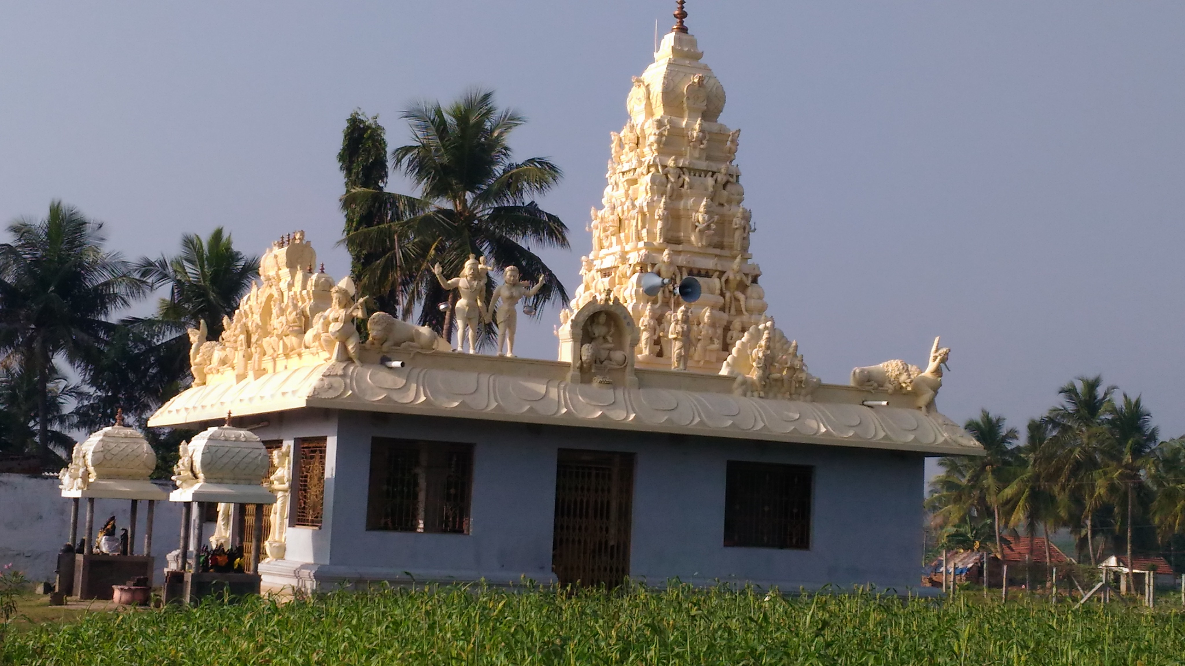 Kottaimariyamman Temple, Kottaimedu